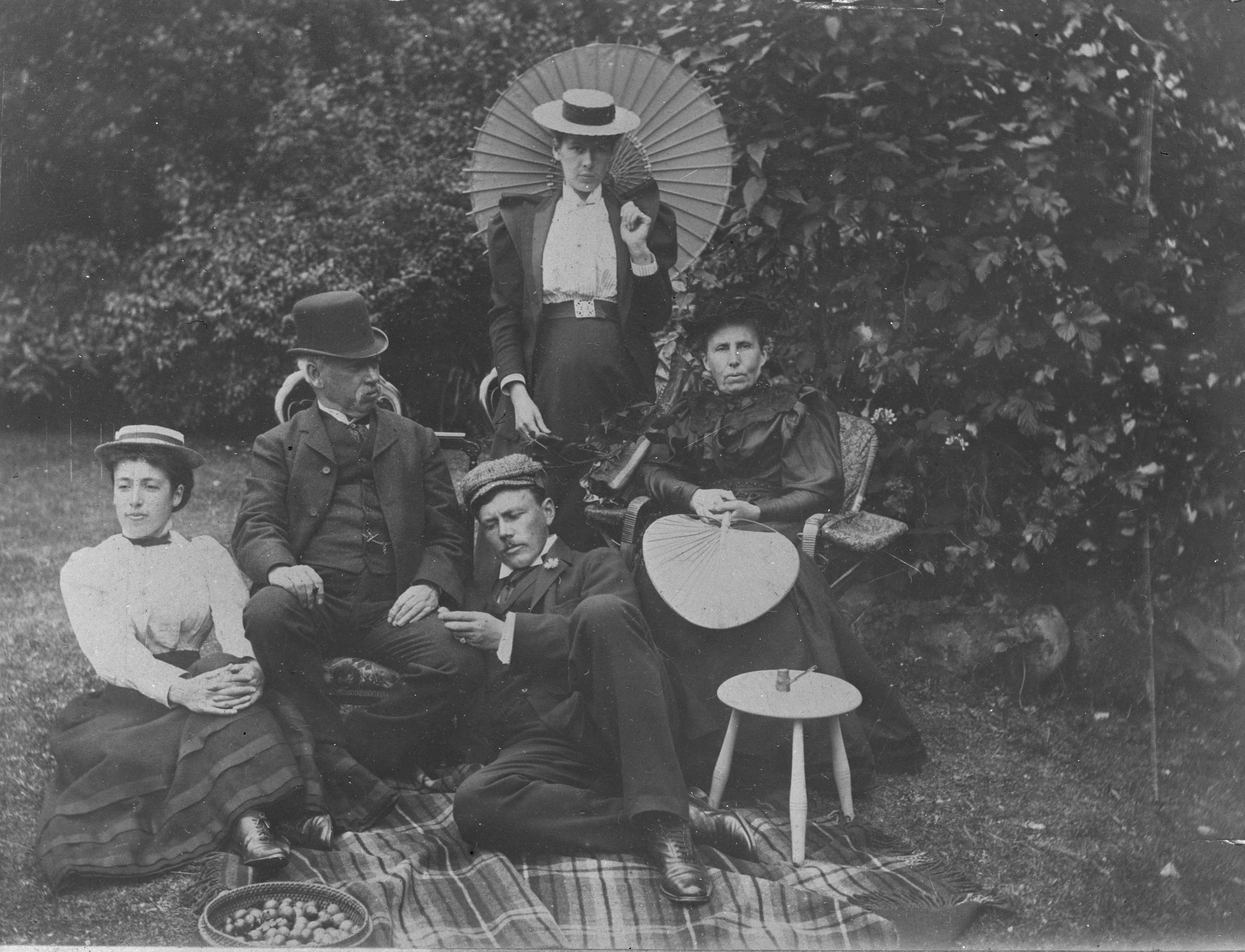 The lower image was taken at Cranmore Lodge, on the hills above Dunedin, in February 1892. Shows Isabel Hodgkins (holding Japanese sunshade), William Mathew and Rachael Hodgkins (seated), William Field (on ground). Photograph taken by Cower.